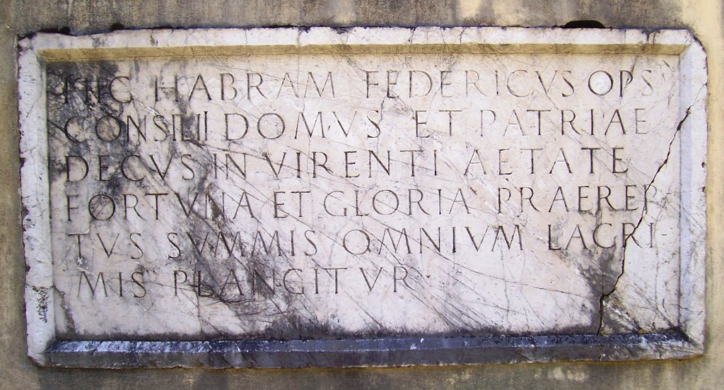 Plaque of Abram Federici. Erbanno, Darfo Boario Terme, Val Camonica